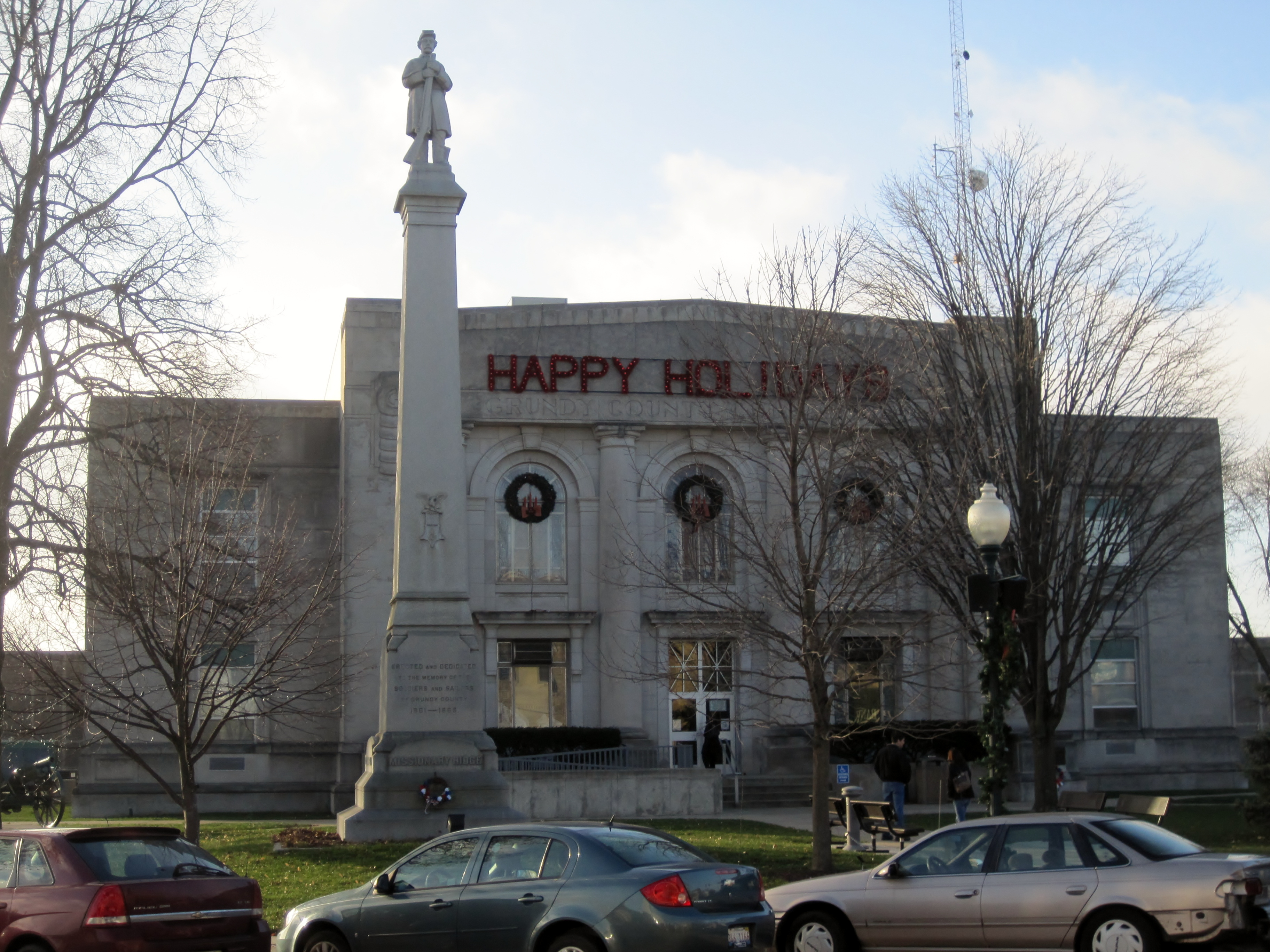 Front of the Grundy County Courthouse, located on the square bounded by Washington, Franklin, Illinois, and Liberty Streets in Morris, Illinois, United States. Built in 1913, it is a part of the Morris Downtown Commercial Historic District, a historic district that is listed on the National Register of Historic Places. Morris was selected as the Grundy County seat in 1841; the town was named after Isaac N. Morris, the president of the Illinois & Michigan Canal. This structure, the third county courthouse, was built in 1913. The granite structure in front is the Soldiers and Sailors Monument by Lorado Taft. Grundy County was founded in 1841, split off of LaSalle County. It was named for Felix Grundy, the Attorney General of the United States who died a few months earlier.